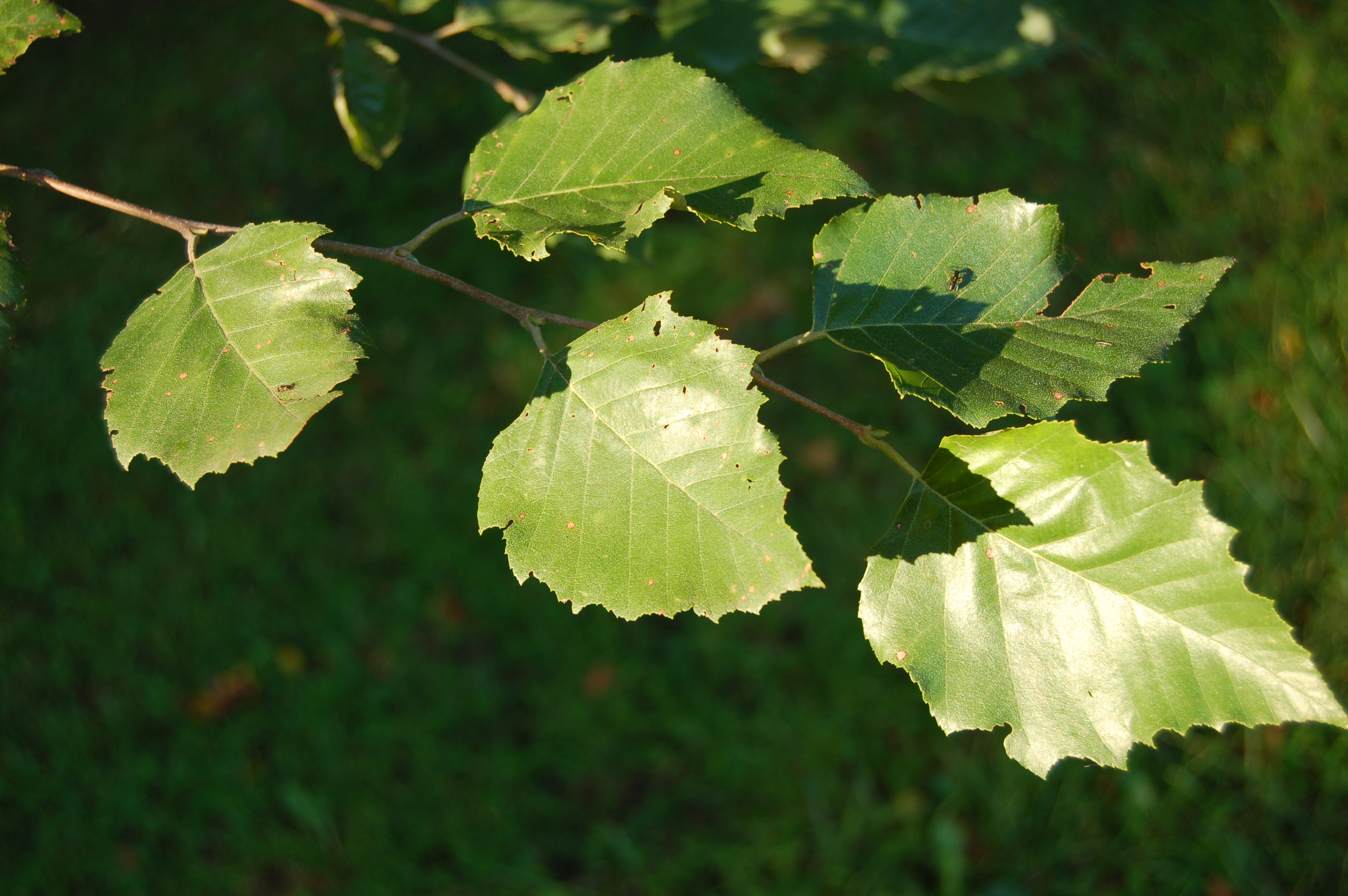 Photograph of the River Birchen (Betula nigra en ). Photo taken at the Tyler Arboretum where it was identified.